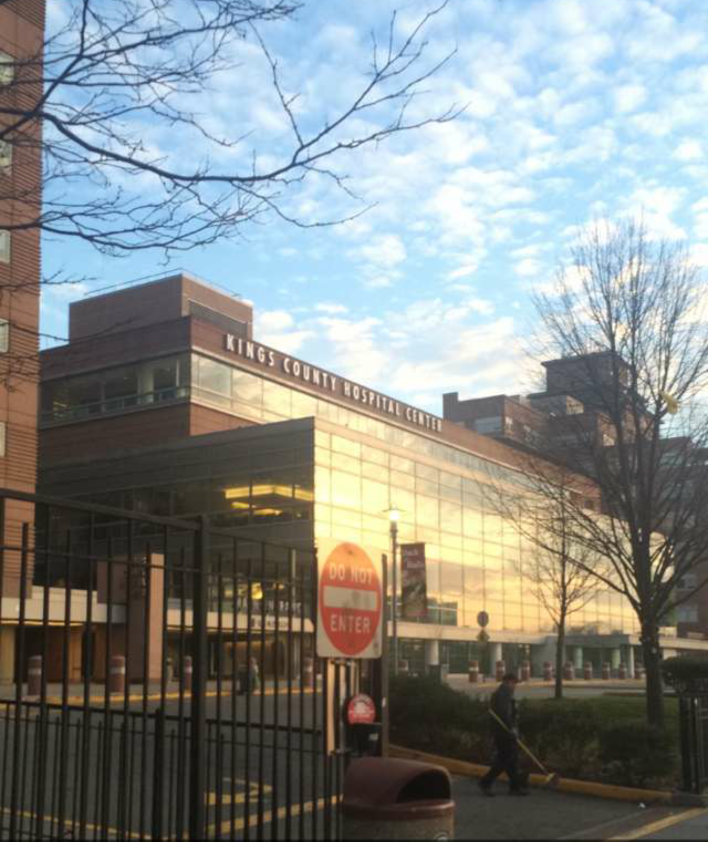 Exterior of Kings County Hospital Center S Building on a morning in Winter 2015.